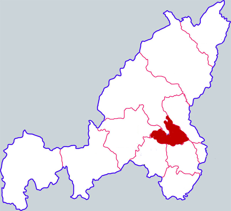 Location of Mizhi county in Yulin city, Shaanxi province, China